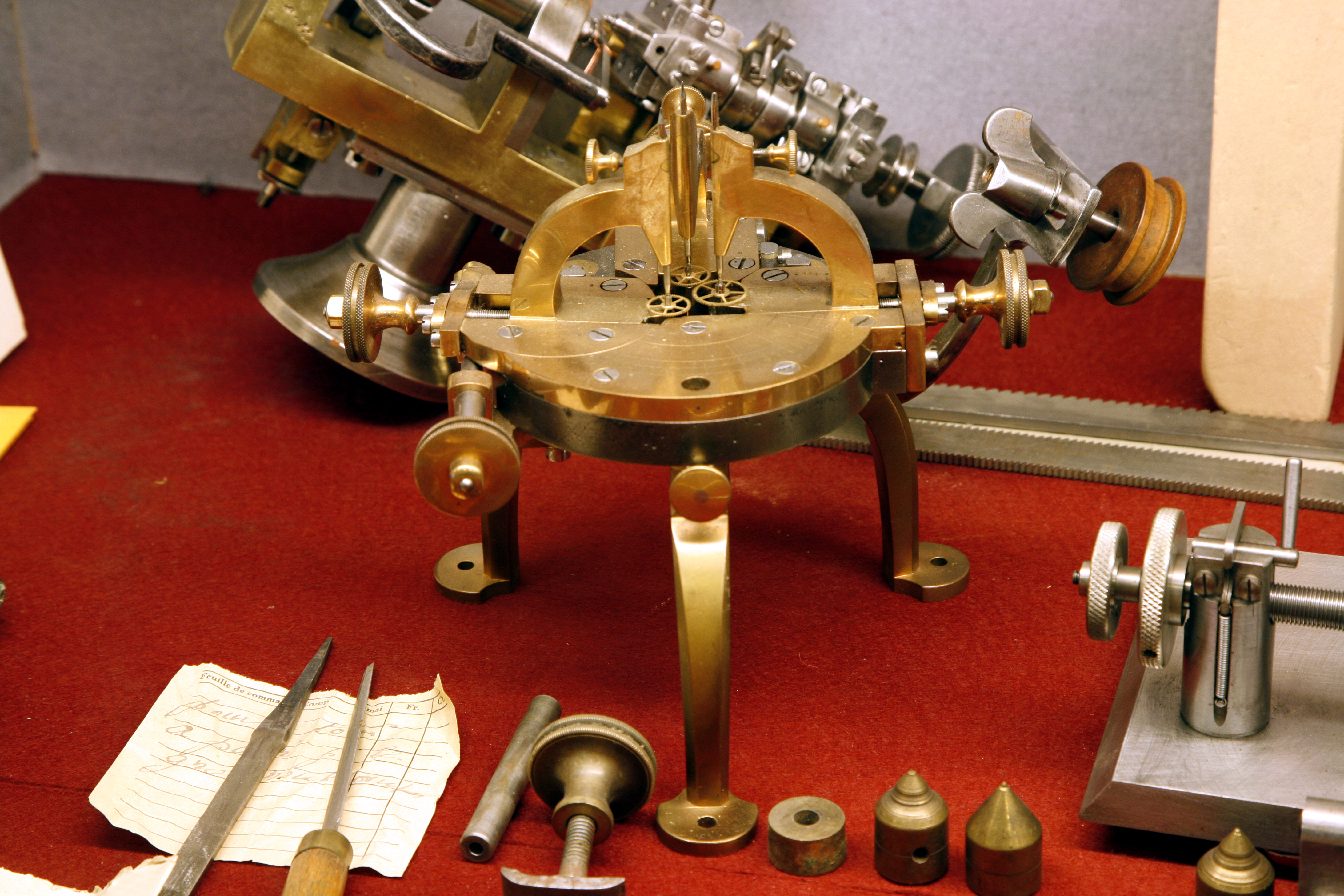 Musée Baud